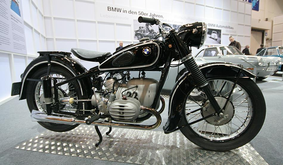 BMW motorcycle R 51/3 - 1951